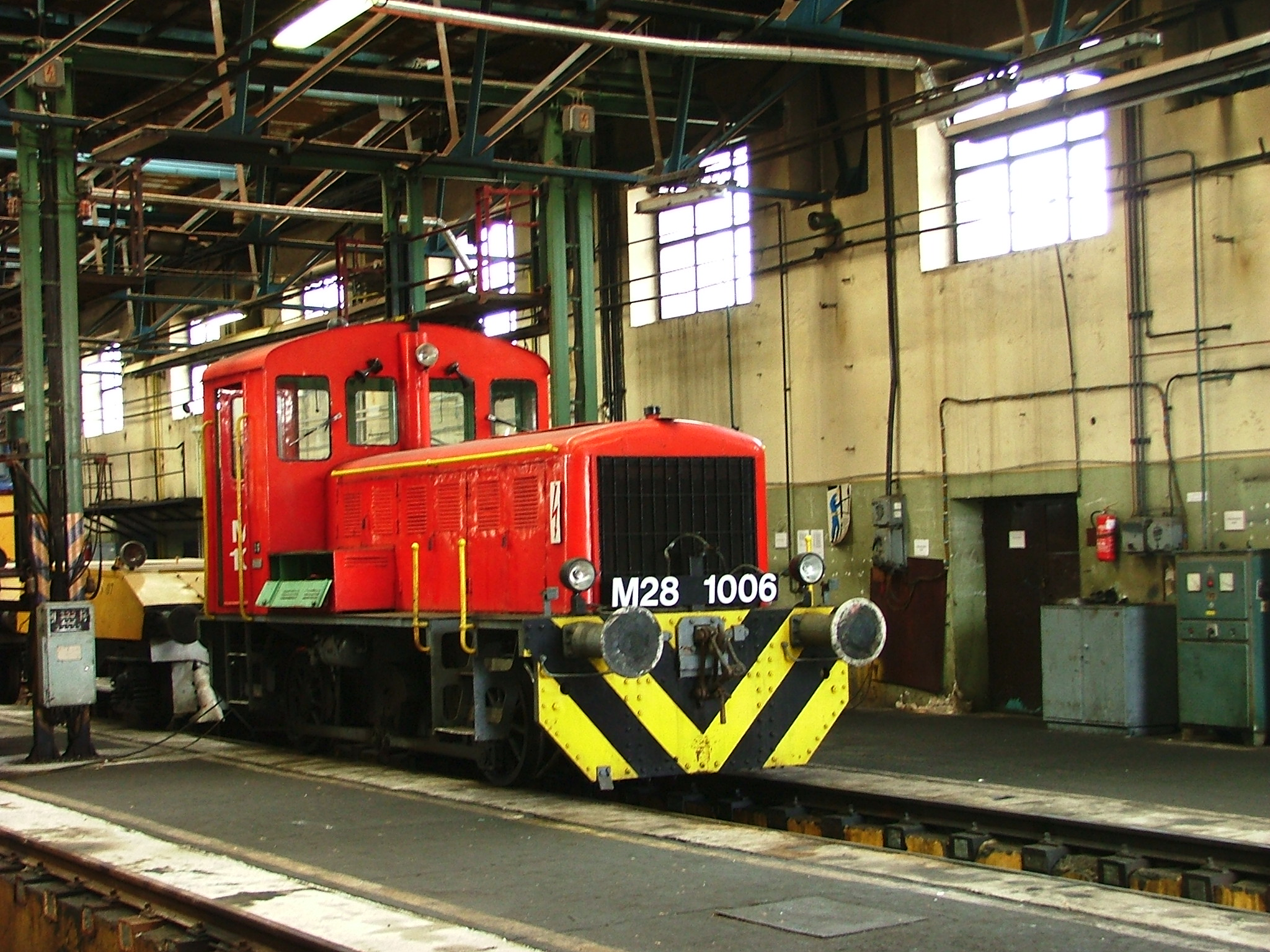 An M28 class diesel-mechanic locomotive